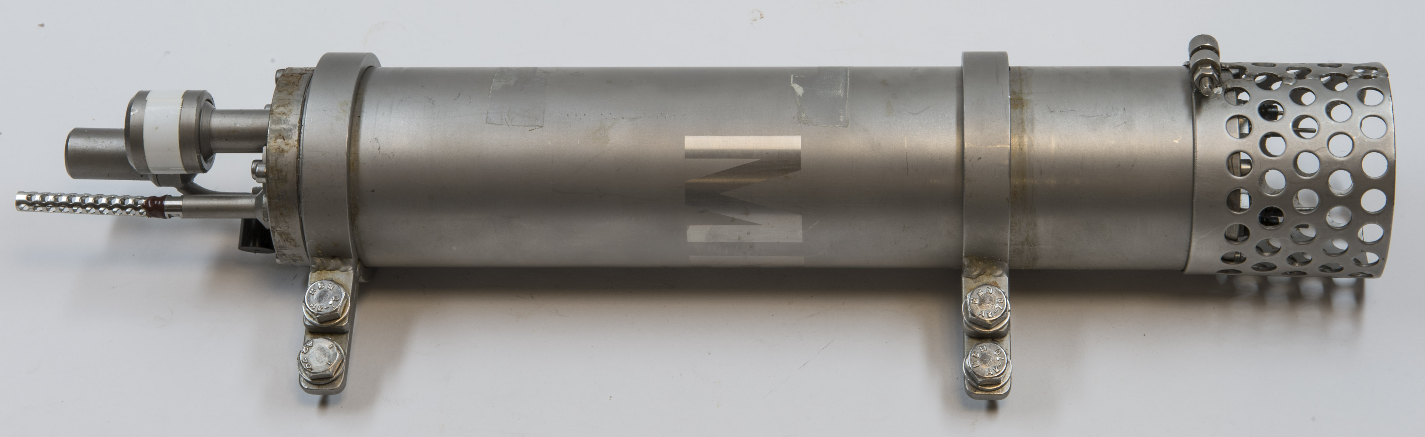 CTD (condcutivity, temperature, depth). Oceanographic device (small version) to determine water masses in the oceans from research vessels: - electronic interieur with sensors for condcutivity, temperature and pressure - cage to protect sensors - water tight conectors - housing for high water pressure